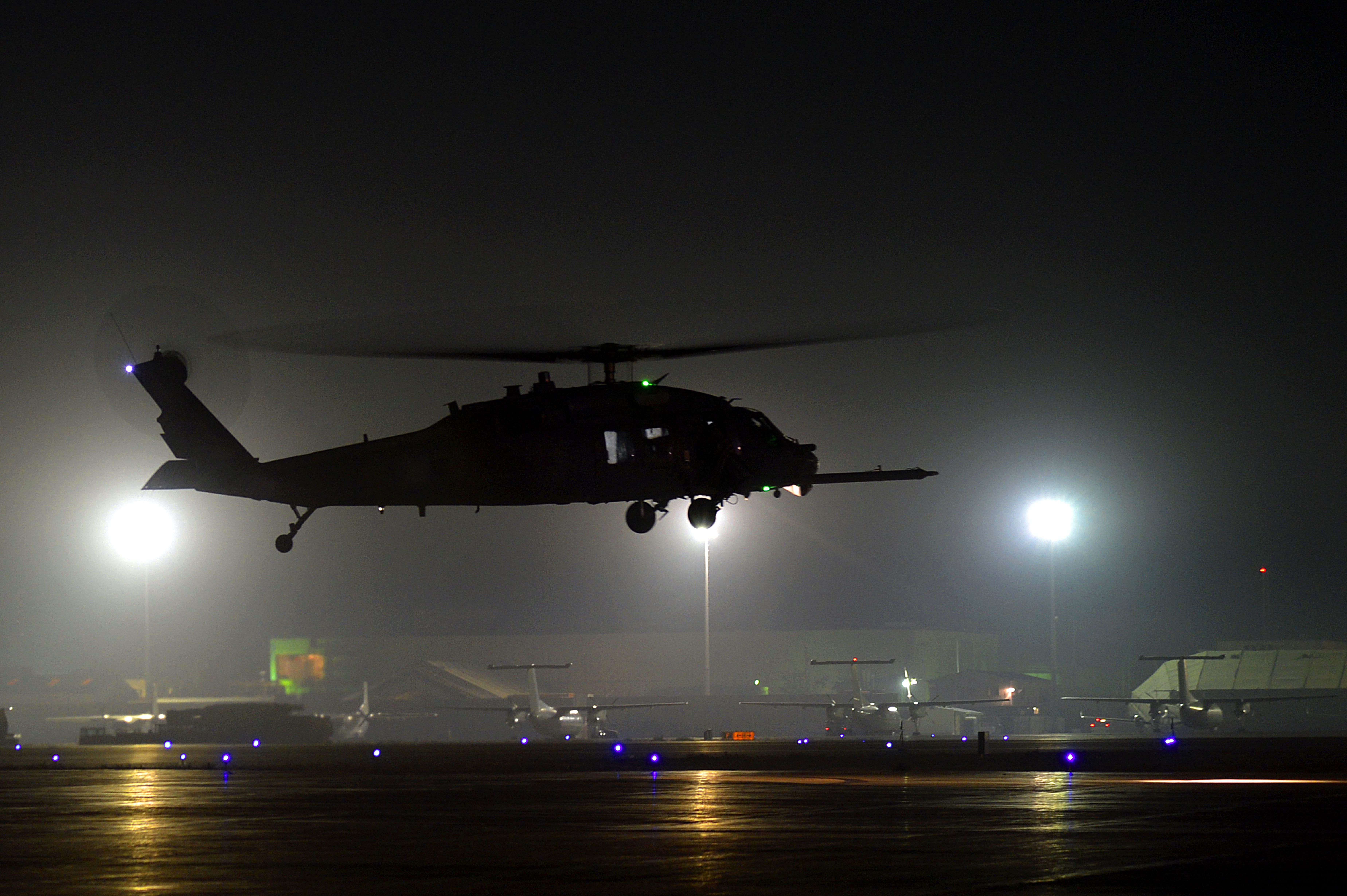 A U.S. Air Force HH-60G Pave Hawk helicopter assigned to the 83rd Expeditionary Rescue Squadron takes off at Bagram Airfield, Parwan province, Afghanistan, for a night training mission Nov. 13, 2013.